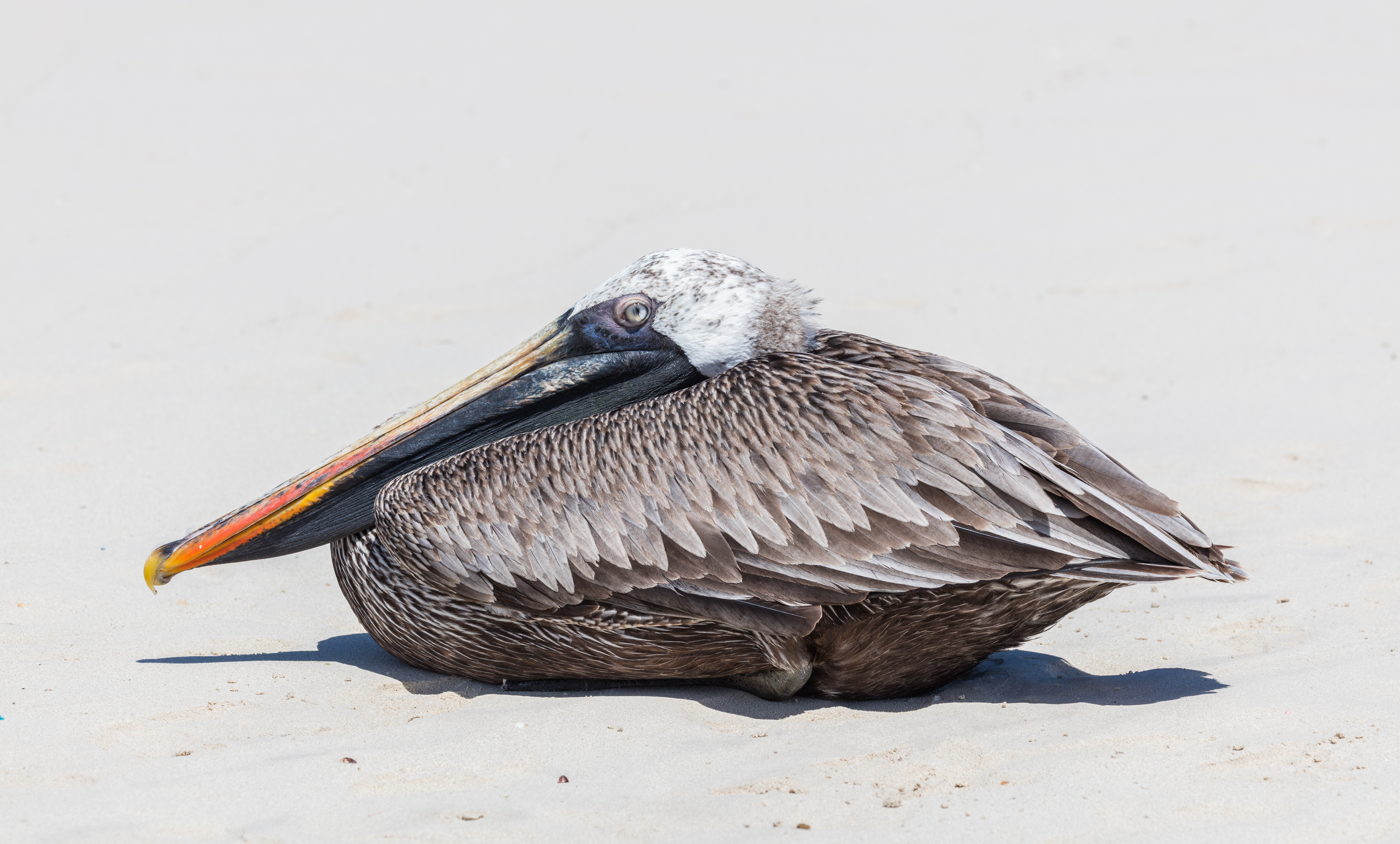 Exemplar of brown pelican (Pelecanus occidentalis) laying in Tortuga Bay, Santa Cruz Island, Galápagos Islands, Ecuador.